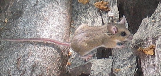 Crop of file in filename